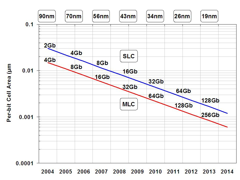 A rough history of process migration for SLC and MLC flash memory, showing the maximum density that can be achieved and the approximate cell size.